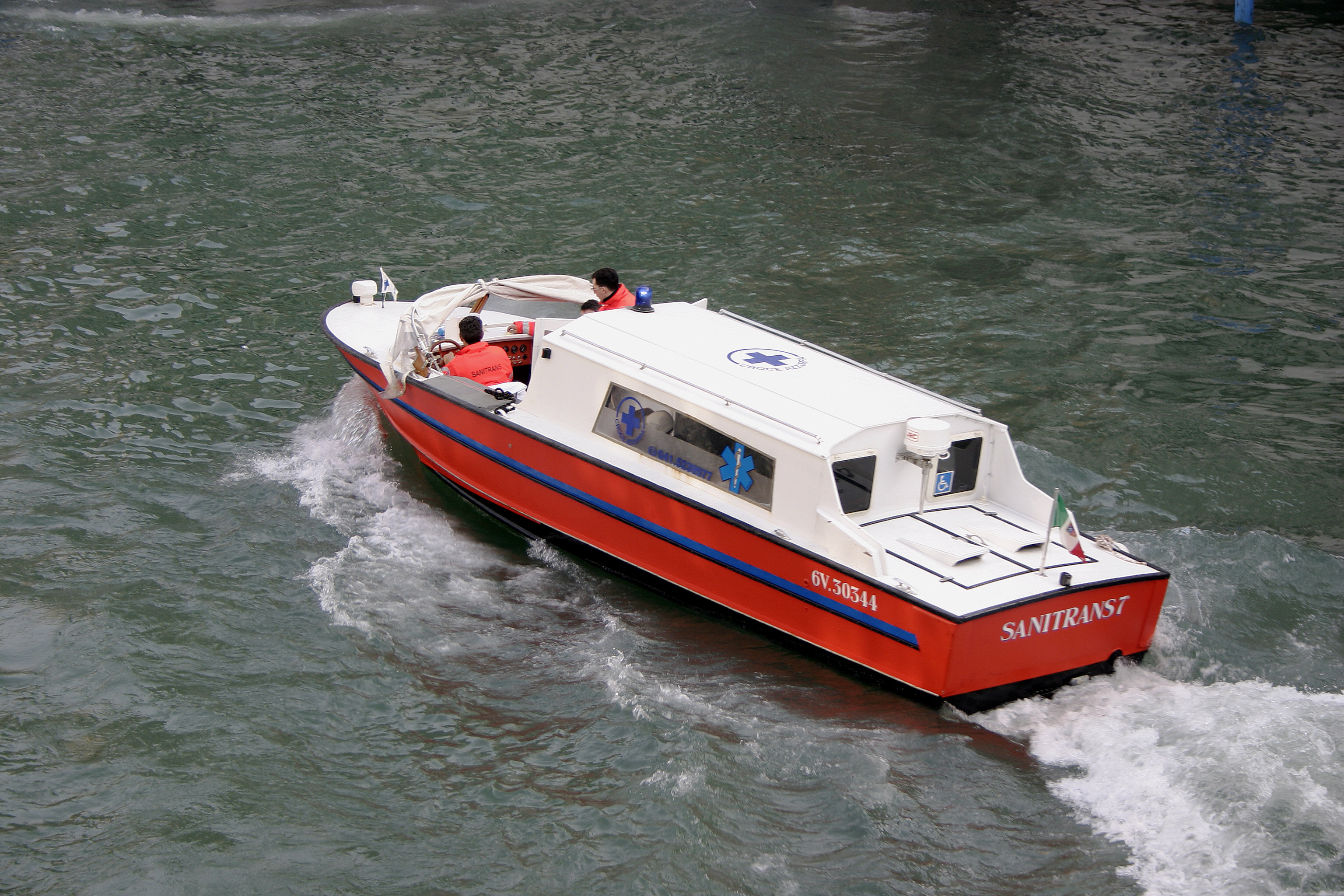 Venice – Ambulance